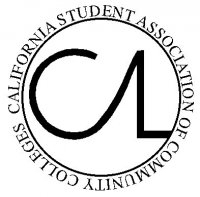 This file contains an image of the logo of California Student Association of Community Colleges (CalSACC). The association was founded in 1987 and it disbanded in 2007.